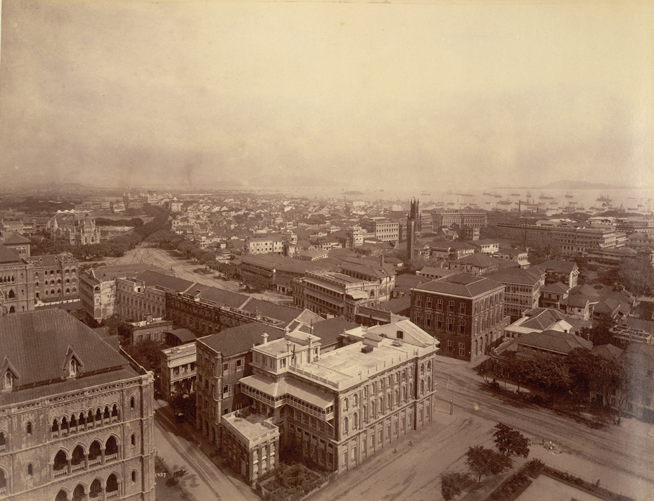 Photograph of Bombay from the Macnabb Collection (Col James Henry Erskine Reid): Album of Miscellaneous views, taken by Deen Dayal in the 1880s.The harbour, busy with port traffic can be seen beyond the town and there are faint views of the islands off the coast in the distance. The busy port and industrial hub of Bombay is the capital of Maharashtra. During British rule, it was the administrative capital of the Bombay Presidency. Extending over a peninsula into the Arabian Sea on the west coast of India, Bombay prospered with maritime trade and became the chief commercial centre of the Arabian Sea. Originally a collection of fishing villages of the Koli community built on seven islands, Bombay was by the 14th century controlled by the Gujarat Sultanate who ceded it to the Portuguese in the 16th century. In 1661 it was part of the dowry brought to Charles II of England when he married the Portuguese princess Catherine of Braganza. By the 19th century, the British were in control of India and they embarked on a programme of building commensurate with their power and primacy. Bombay burgeoned over the decades and boasted a skyscape of colonial architecture.